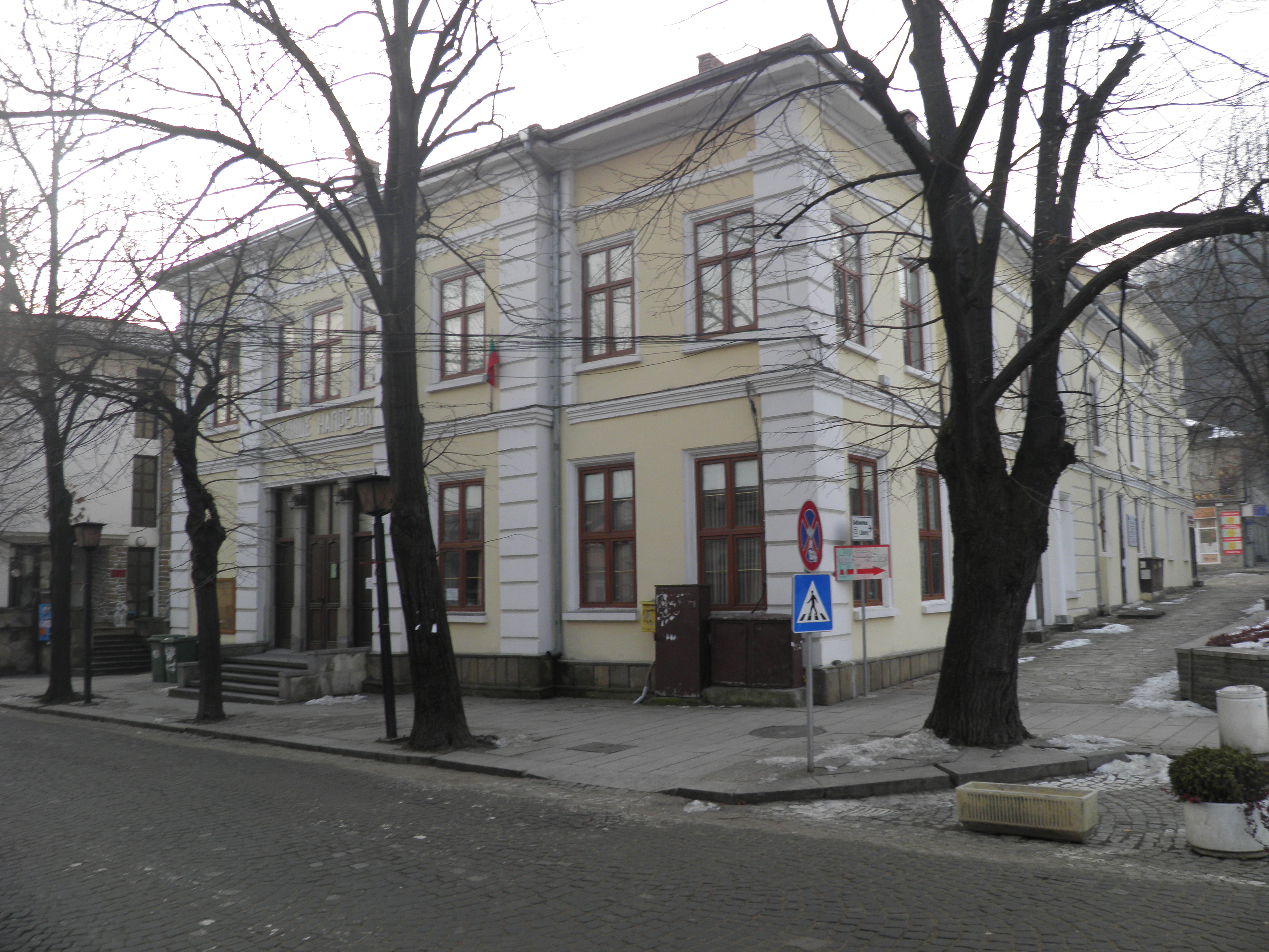 Library Napredak,Elena in 2019